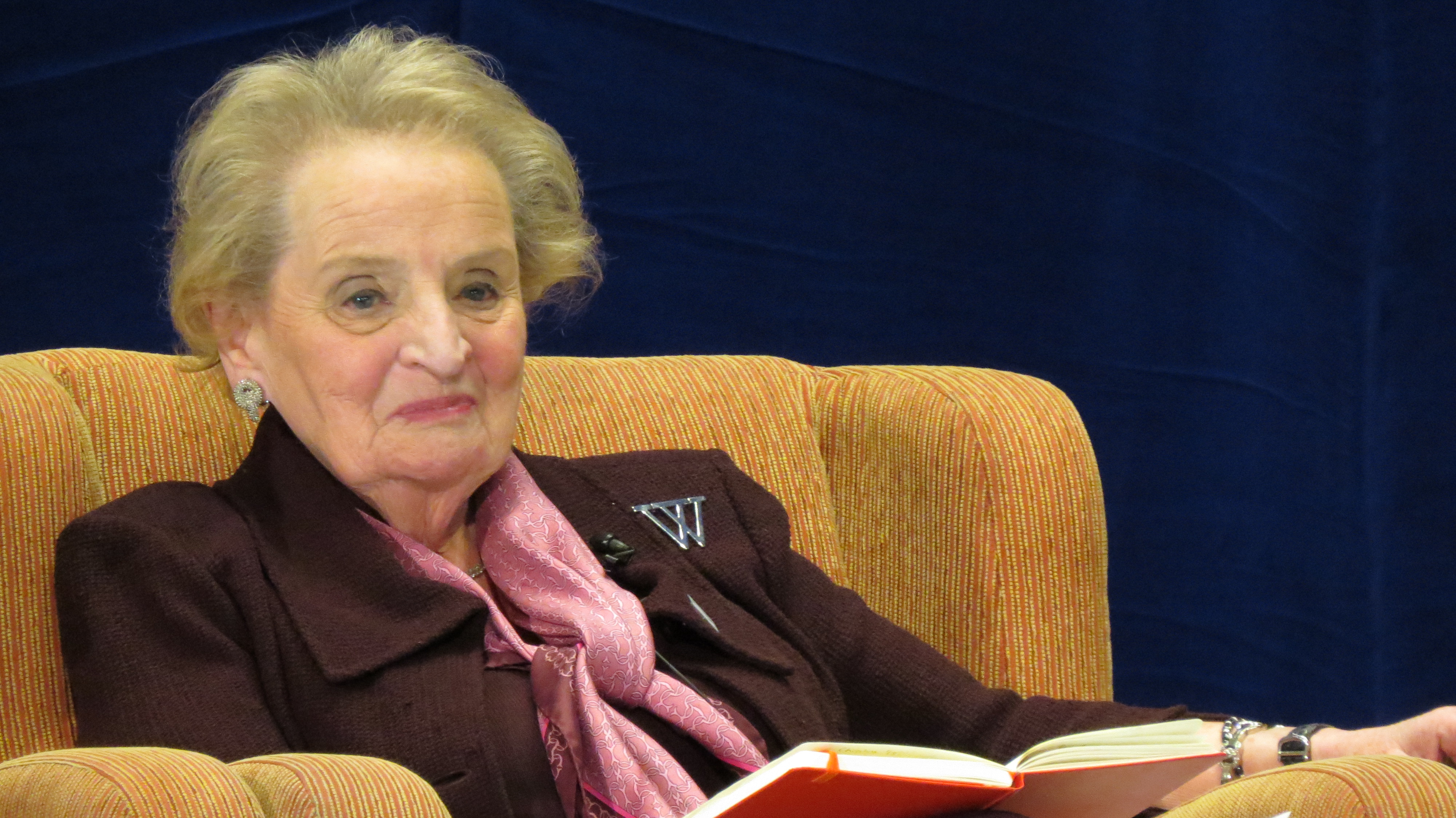 Former US Secretary of State and diplomat Madeleine Albright sits smiling in a chair on stage at a public forum organized by the Madeleine Korbel Albright Institute for Global Affairs, which Albright founded at Wellesley College. Albright, known for wearing symbolic pins and brooches, wears a pin in the shape of the Wellesley College "W" logo.